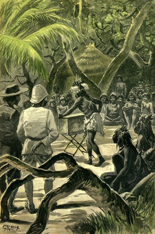 An illustration from Jules Verne's novel "The Village in the Treetops" (lit. "The Aerial Village", 1901) drawn by George Roux.